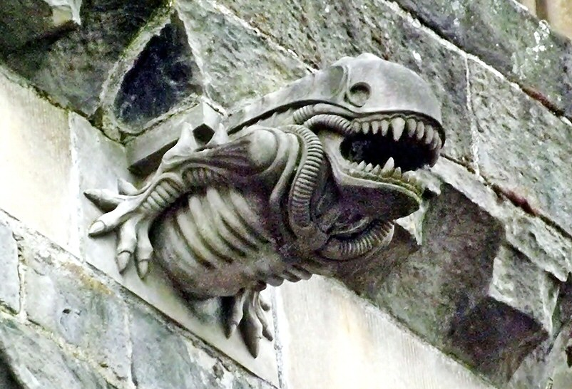 One of the gargoyles replaced a few years ago at Paisley Abbey bears an uncanny resemblance to a Xenomorph from the "Alien" films